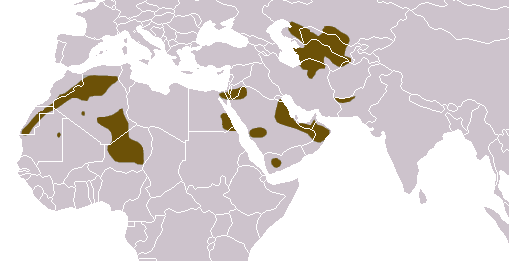 Sand Cat (Felis margarita) range